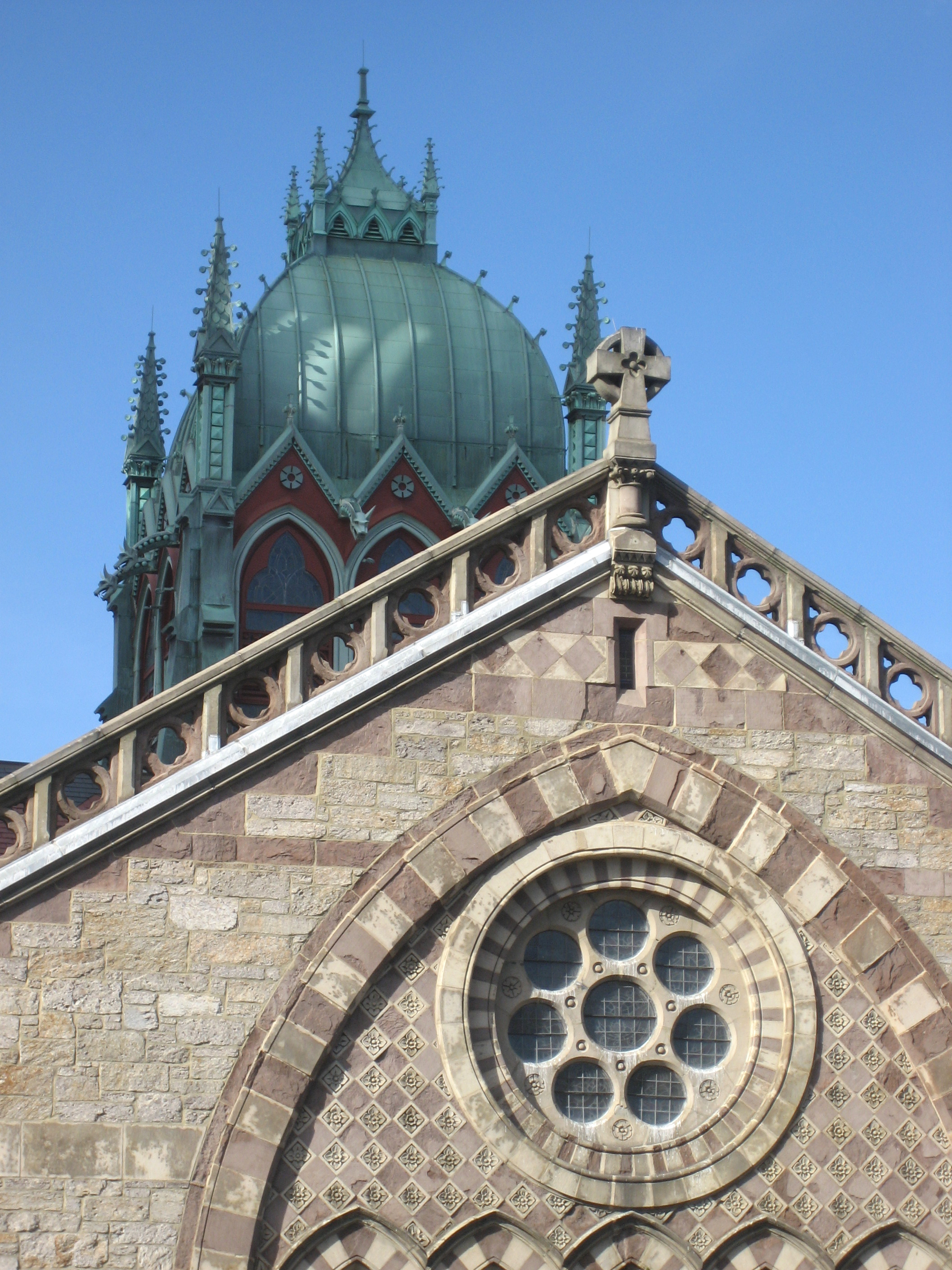 Lantern or cupola of Old South Church in Boston. Designed by Charles Amos Cummings, 1873. Photographed October 2006.